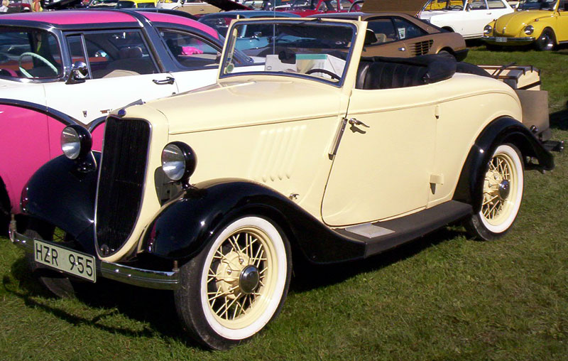 Ford Model Y Junior Sport Cabriolet 1935